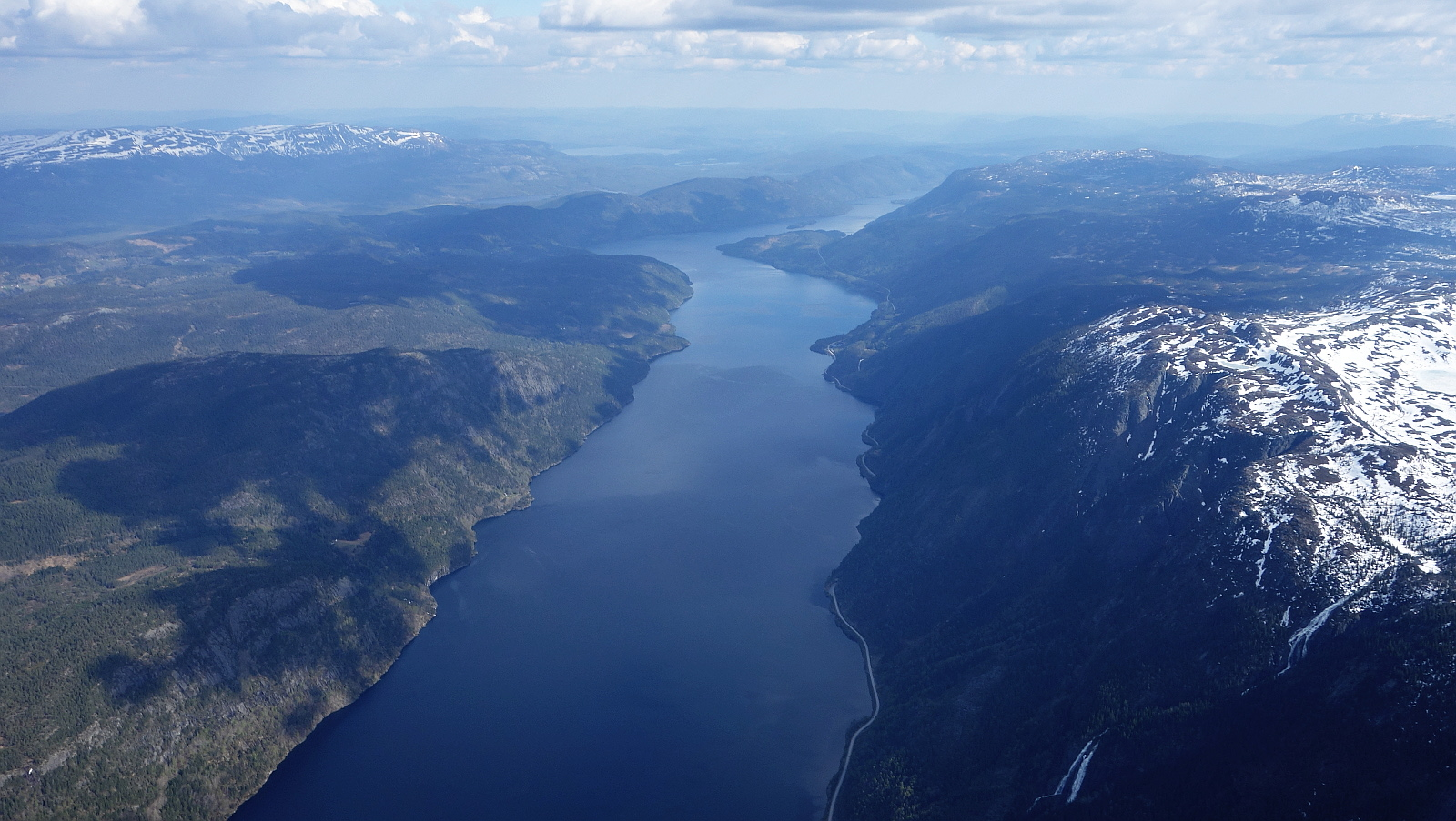 Lake Tinn seen from the air looking south